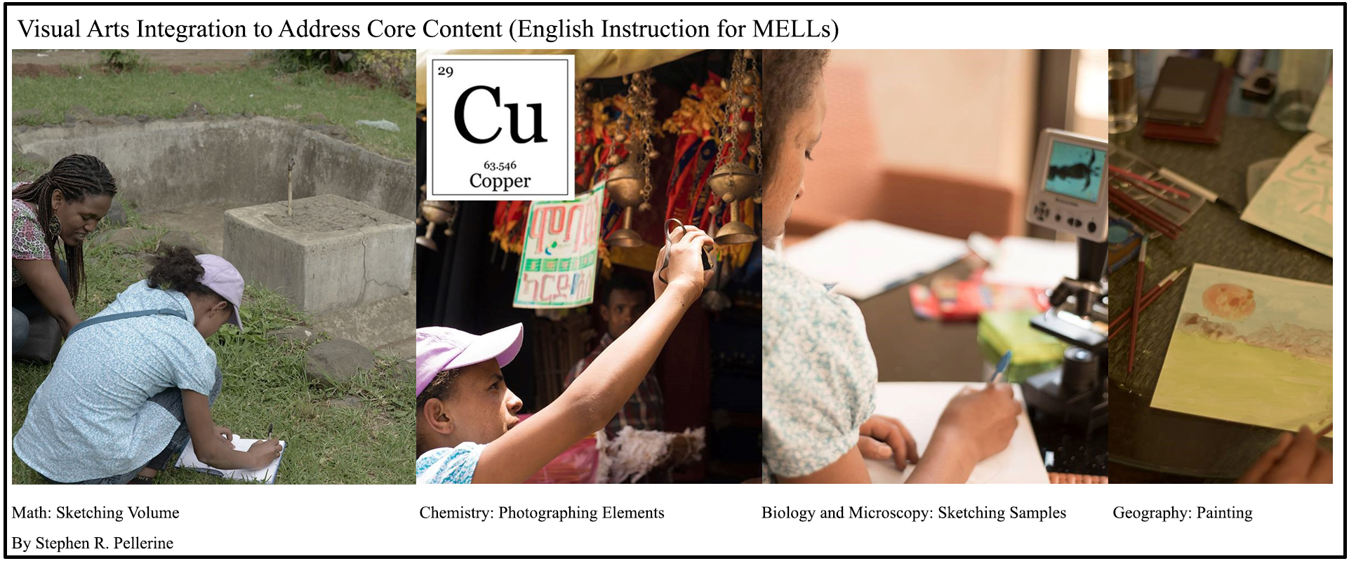 various courses being taught via visual arts